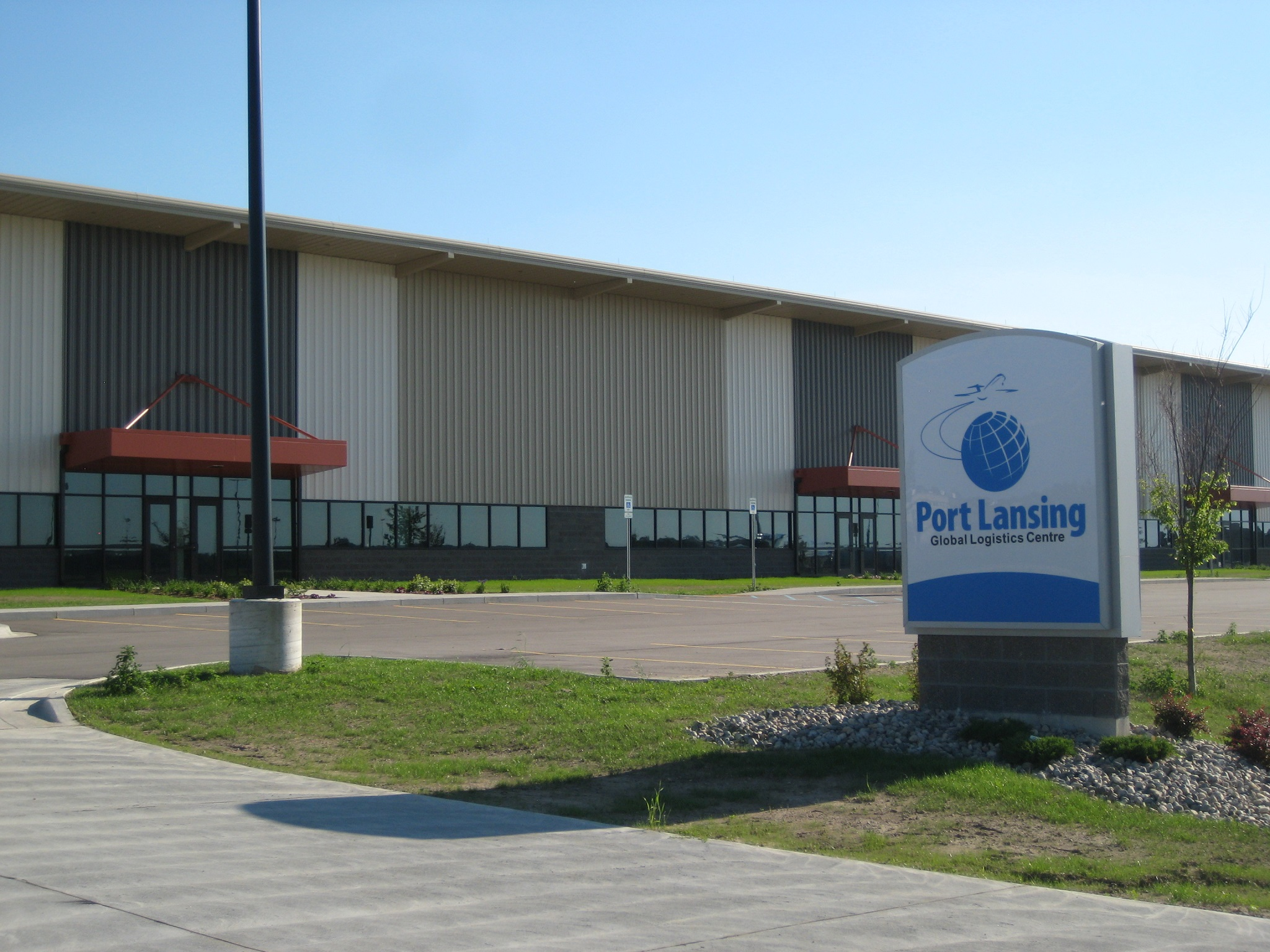 Port Lansing Global Logistics Center (cargo terminal/warehouse) completion at Capital Region International Airport (LAN), Lansing, Michigan. Southwest view from Port Lansing Road.